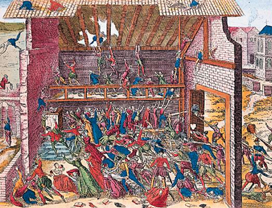 Massacre_de_Vassy_1562_print_by_Franz_Hogenberg_end_of_16th_century.